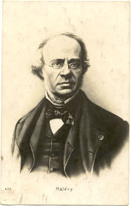 Halevy, in a carte de visite 19th century photogravure See also Image:Jacques Fromental Halevy.jpg